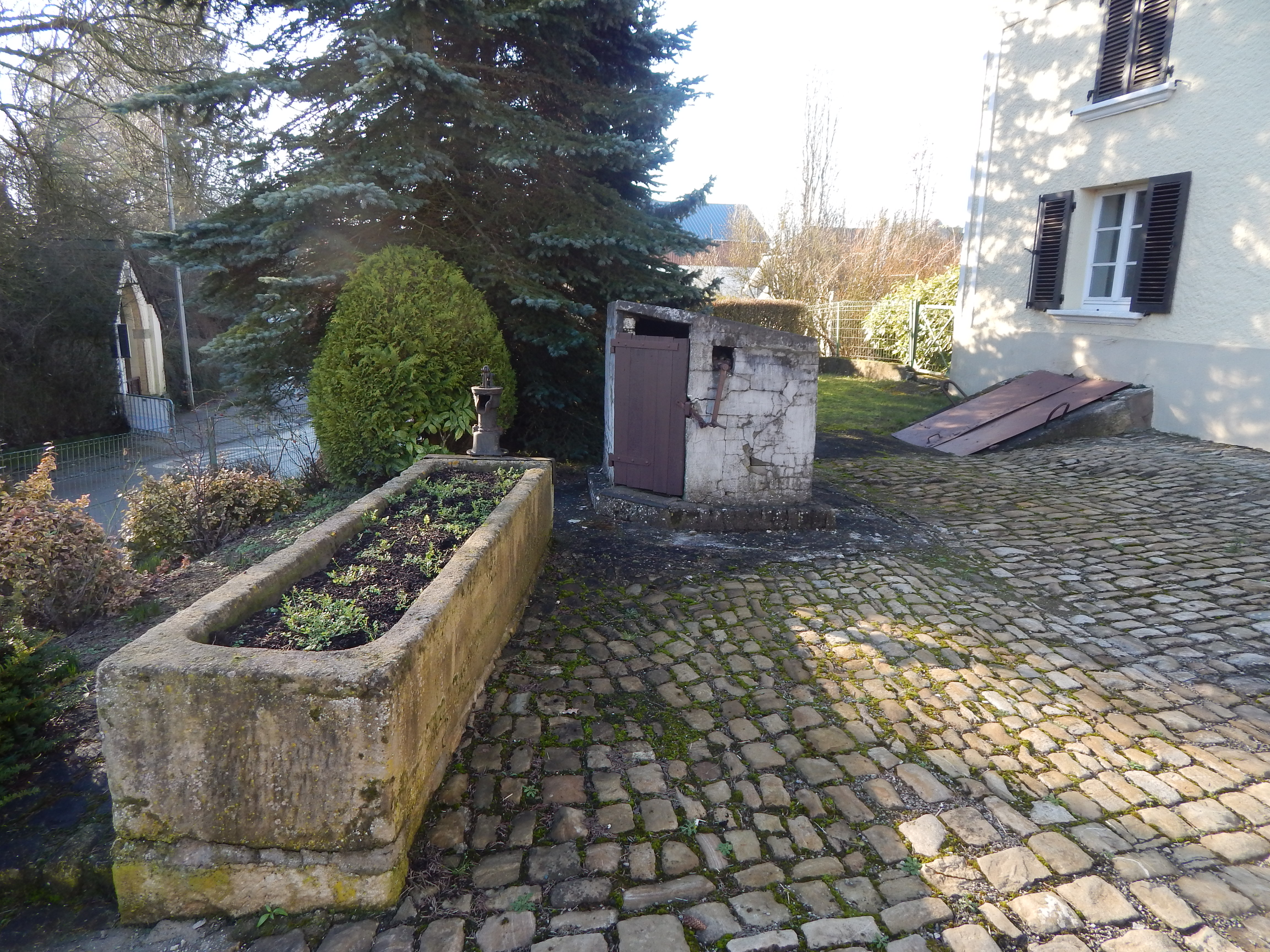 Farmstead with water well and trough in Leudelange (Luxembourg). On the left part near the road: the wayside chapel "Neihaisses".